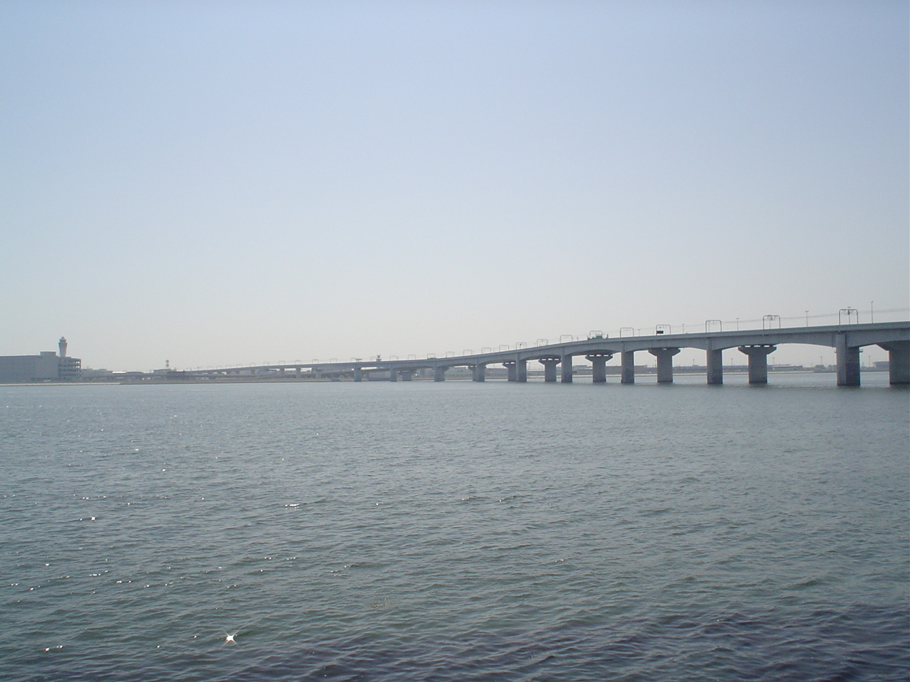 Railway bridge of Chūbu Centrair International Airport.